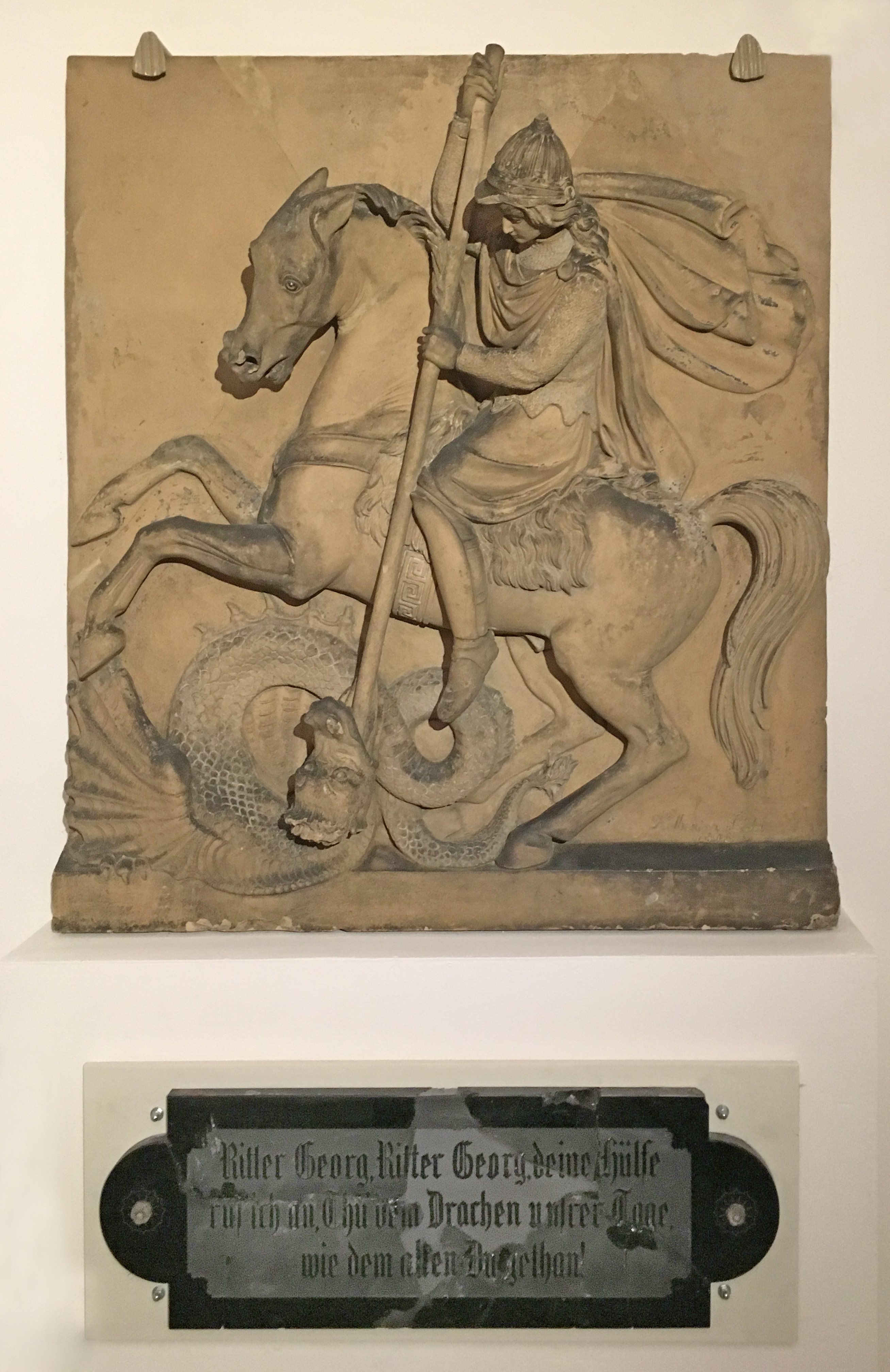 Terracotta relief with Saint George, killing a dragon. Work of art by Katharina Felder (1816-1848). Located in the former chapel of the Pallotines in Koblenz-Ehrenbreitstein, Germany.